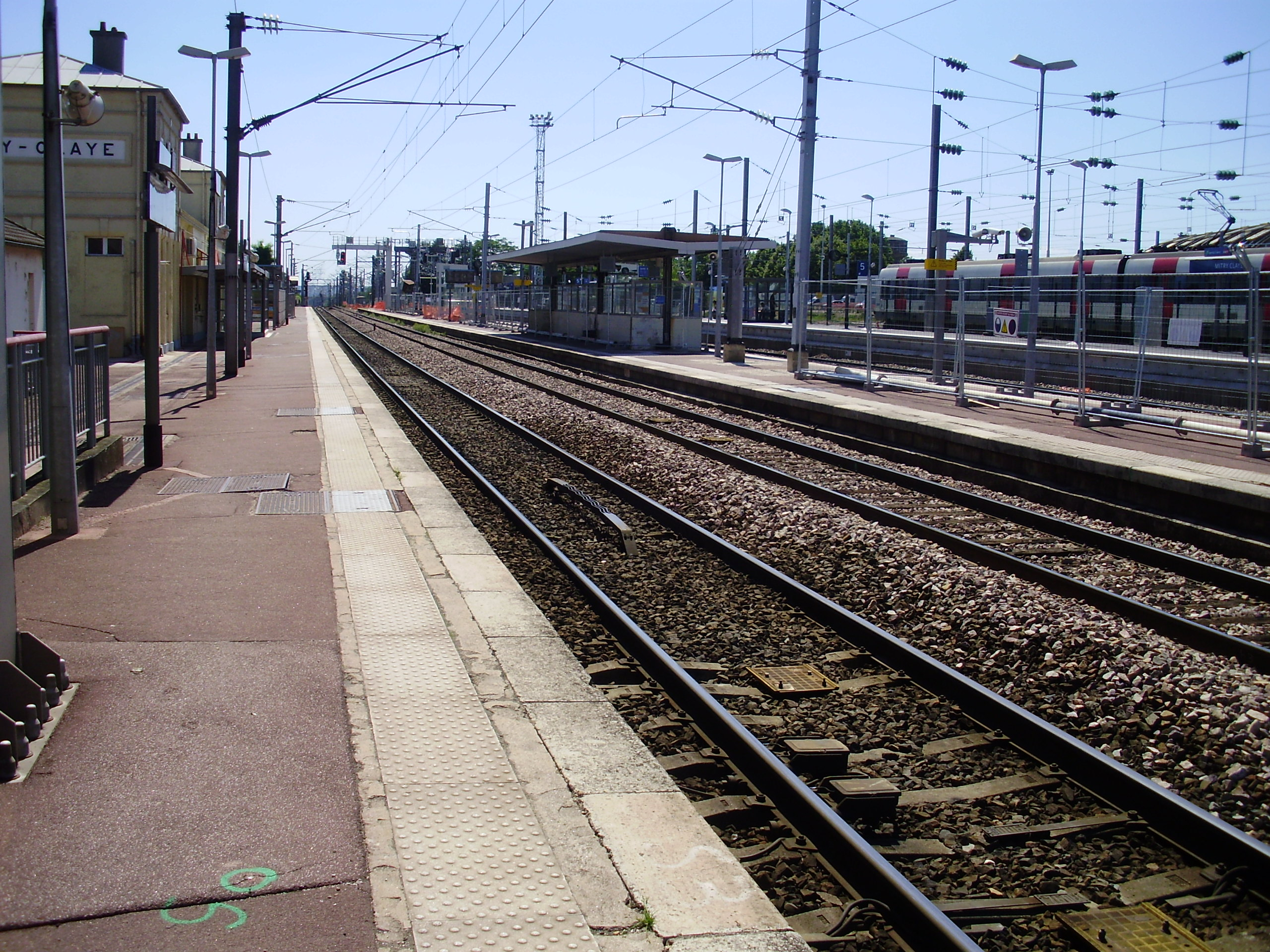 Mitry - Claye station, in Mitry-Mory, Seine-et-Marne, France (general view from the NE extremity of the platform used by trains Transilien between Crépy-en-Valois and Paris-Nord station)